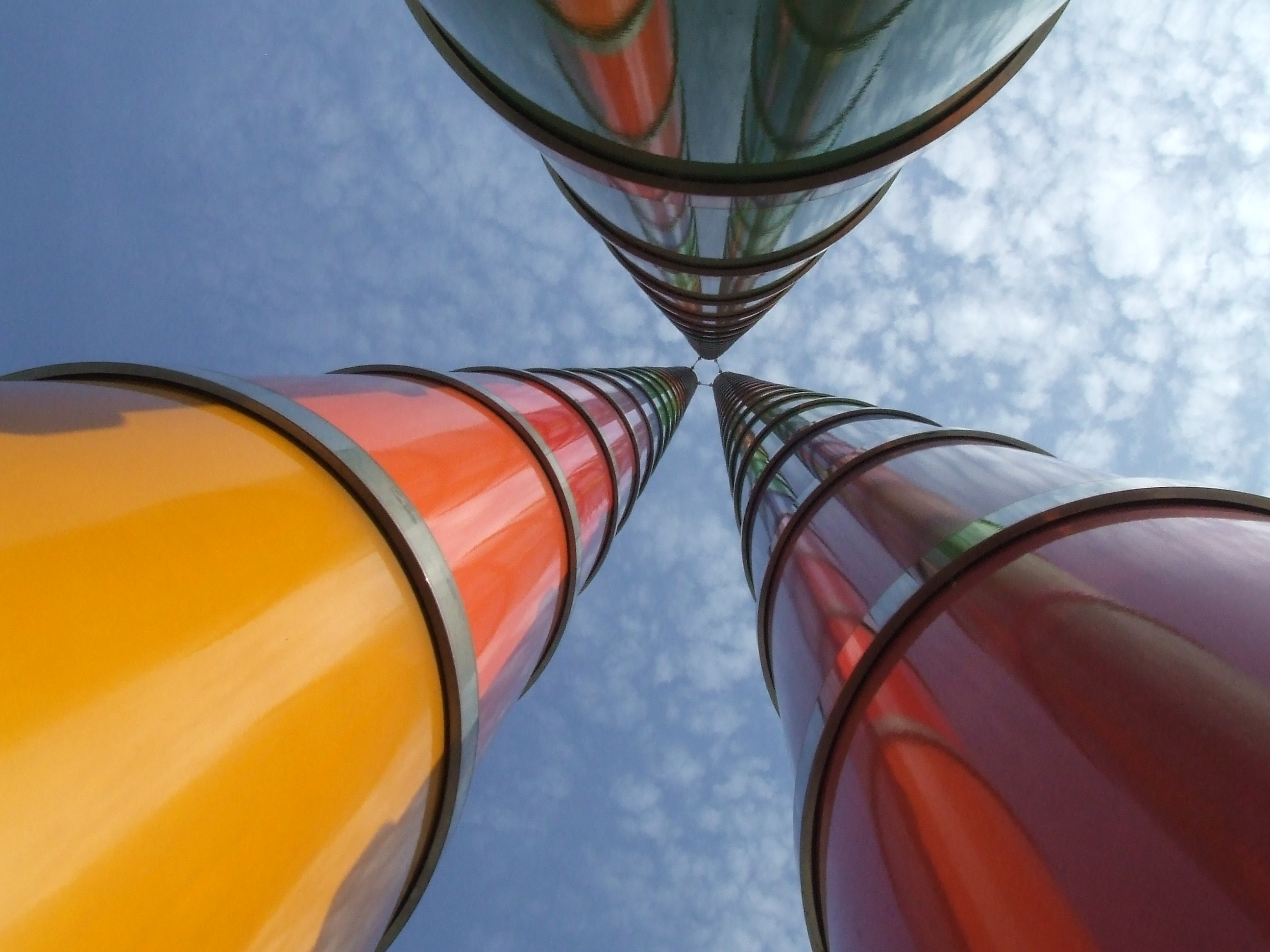 Bildsäulen-Dreiergruppe vor dem Mercedes-Benz-Museum in Stuttgart Max Bill: 1989 bildsäulen - dreiergruppe (statues - group of three) are 32 meters high and like a colored logo linking the sky